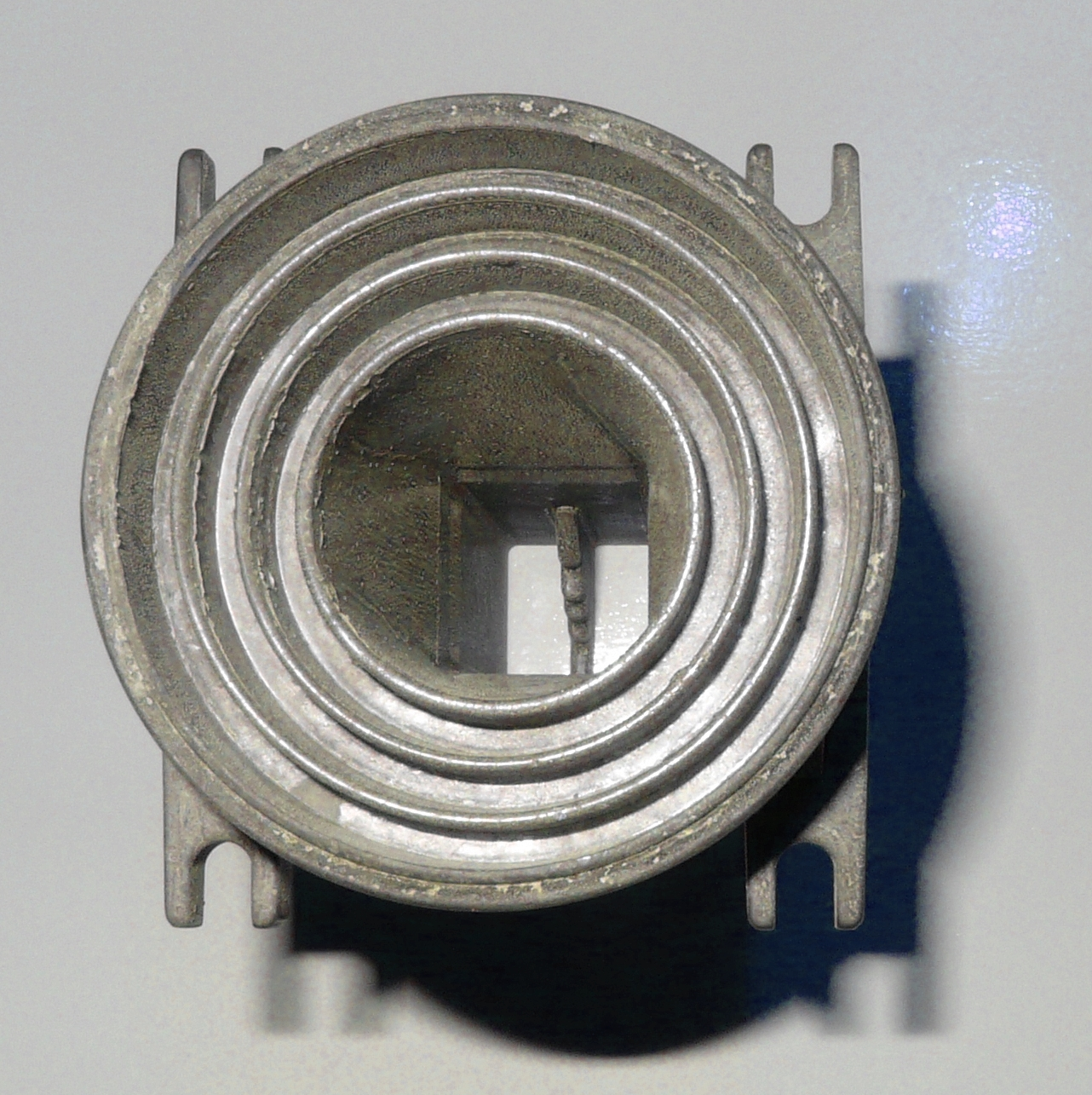 Corrugated horn antenna and circular polarizer used as a feed horn for a satellite dish.